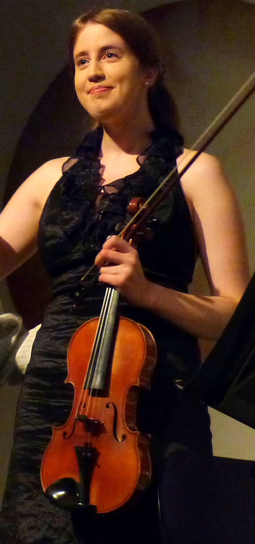 Vilde Frang at a concert in Boswil, Switzerland in summer 2013